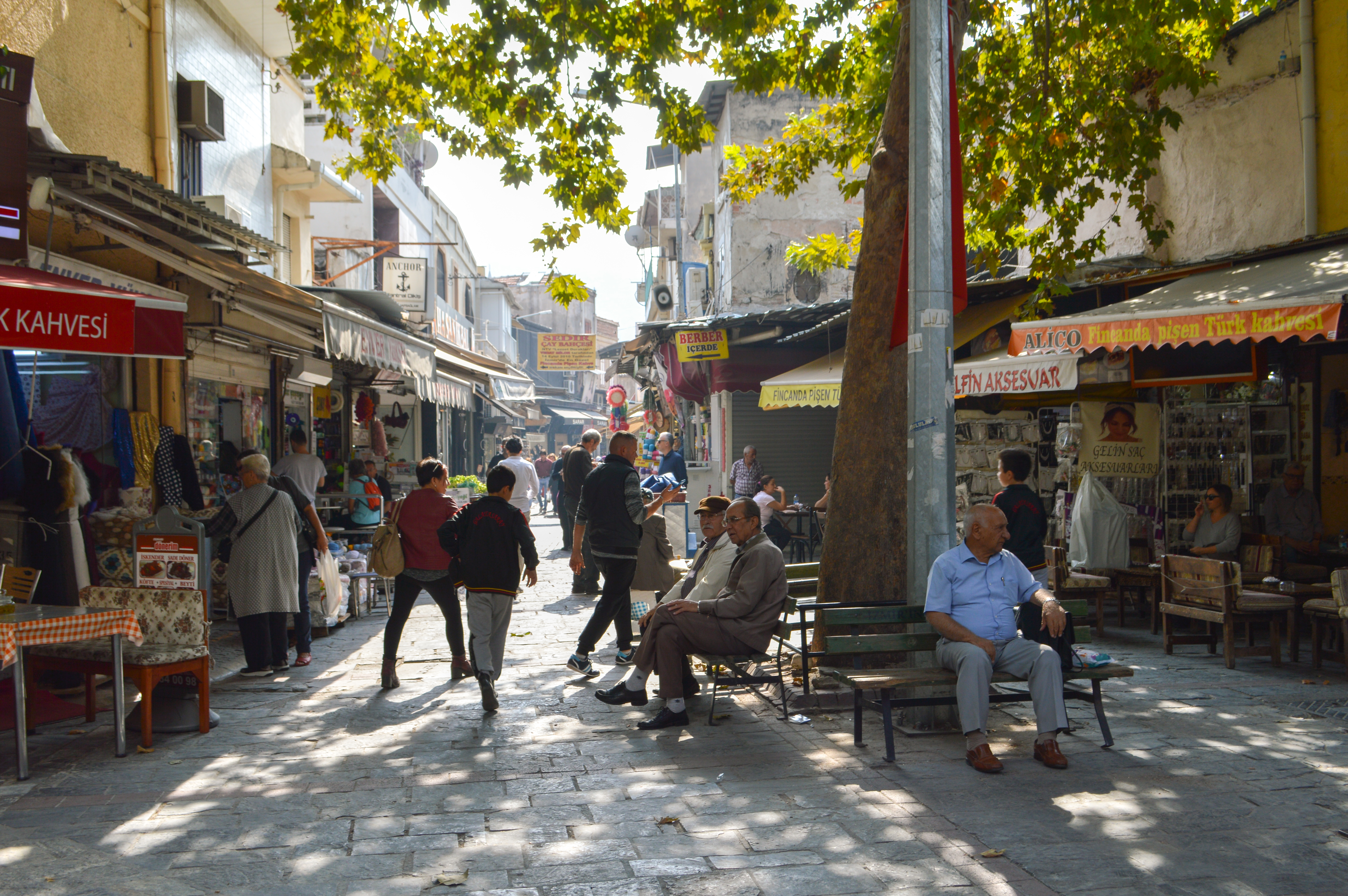 A street in Kemeraltı during the day